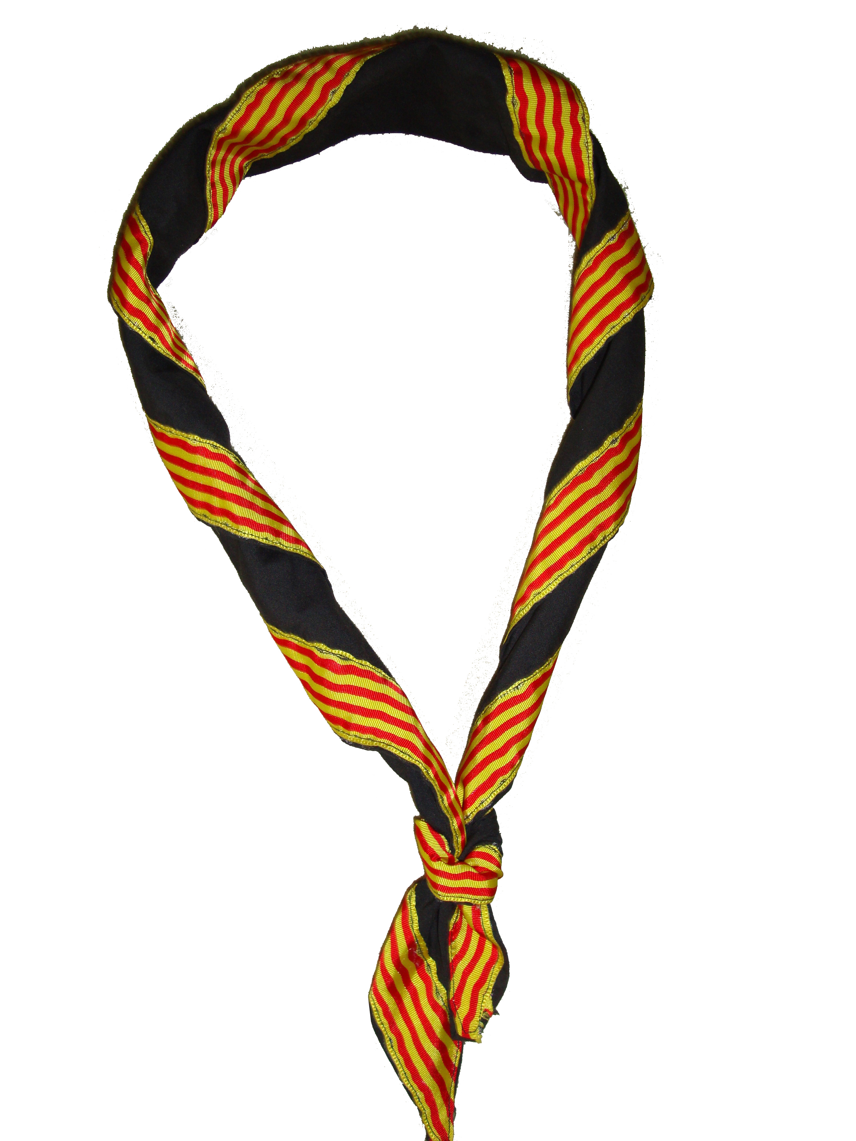 fulard esplai corbera